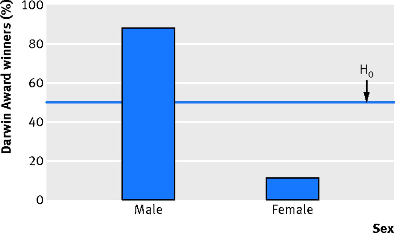 Male and female Darwin Award winners. Line H0 indicates expected percentages under the null hypothesis that males and females are equally idiotic (Verbatim caption, from author's Open Access article)